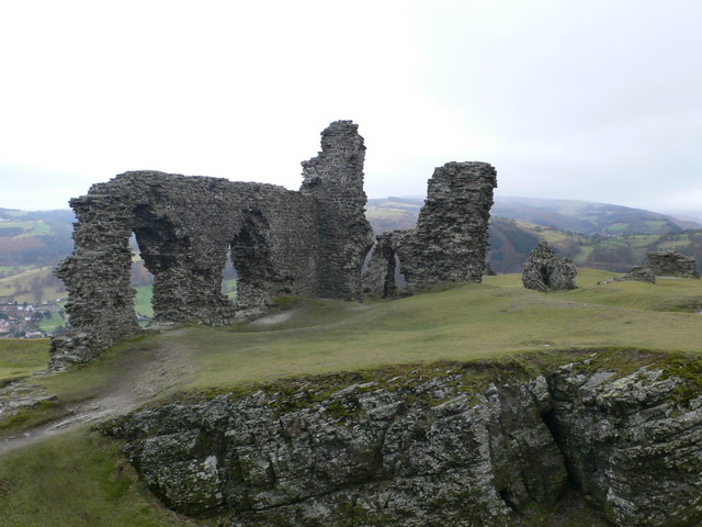 Castell Dinas Brân Not much remains of this medieval castle which was burned down and abandoned in 1277.